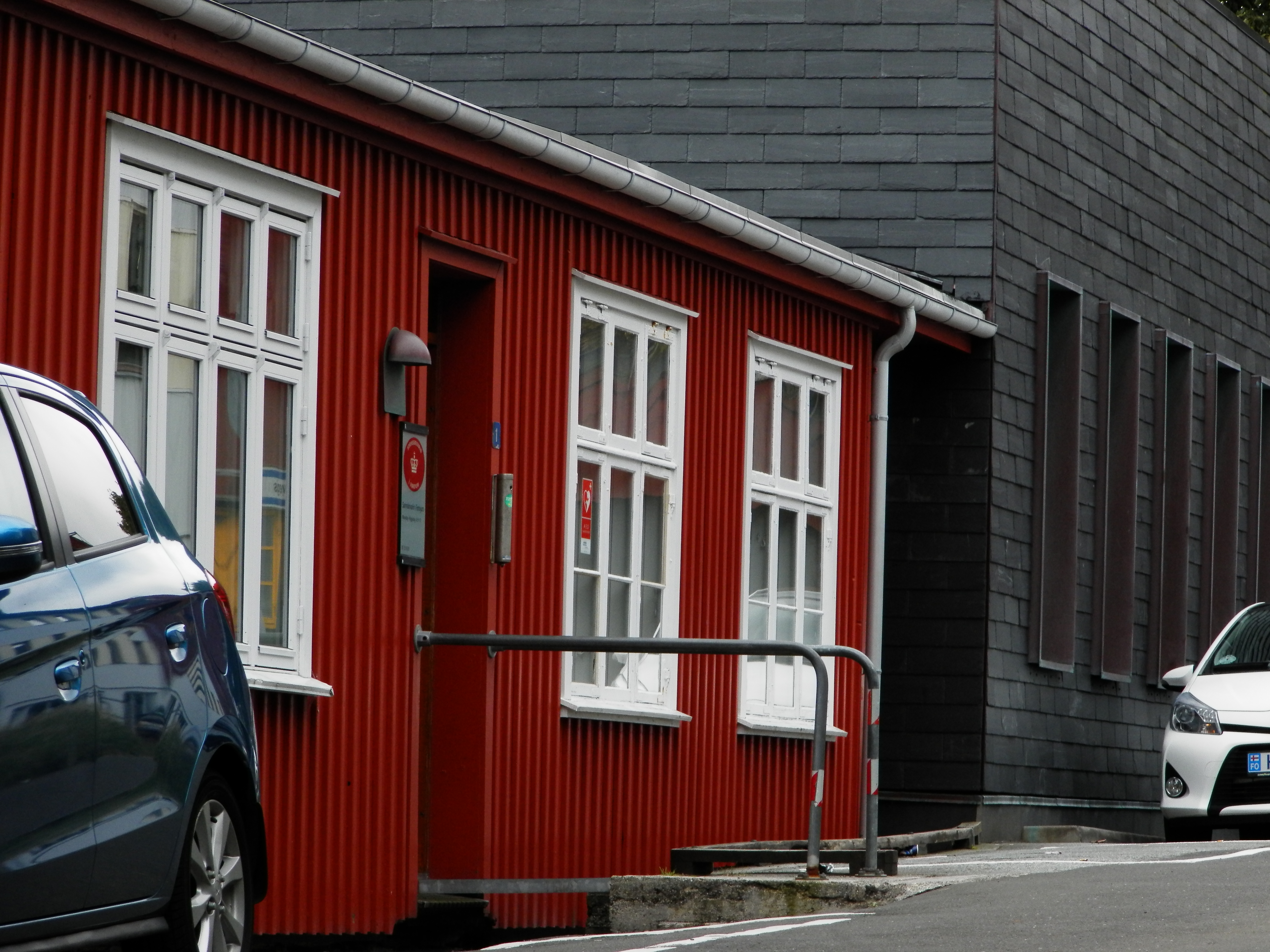 The Court of the Faroe Islands. Sorinskrivarin. C. Pløyensgøta 1, Tórshavn.